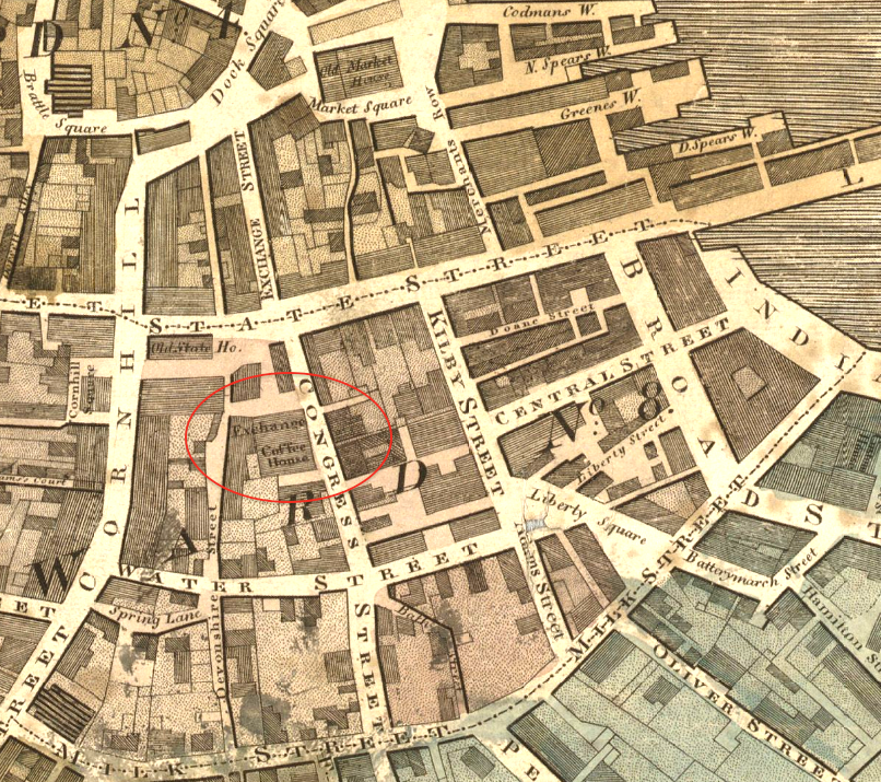 Detail of 1814 map of Boston by John Groves Hale, showing Exchange Coffee House on Congress Street, and vicinity.